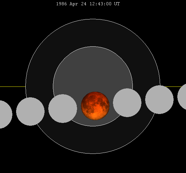 April 1986 lunar eclipse chart of moon's total lunar eclipse path through the earth's shadow. thumb